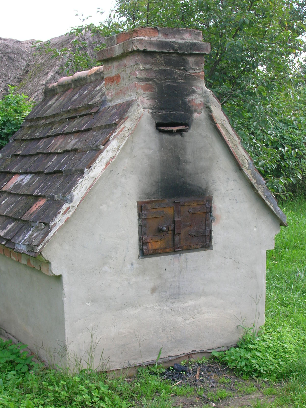 Oven of an old peasant house. Göcsej Village Museum, Zalaegerszeg, Hungary.